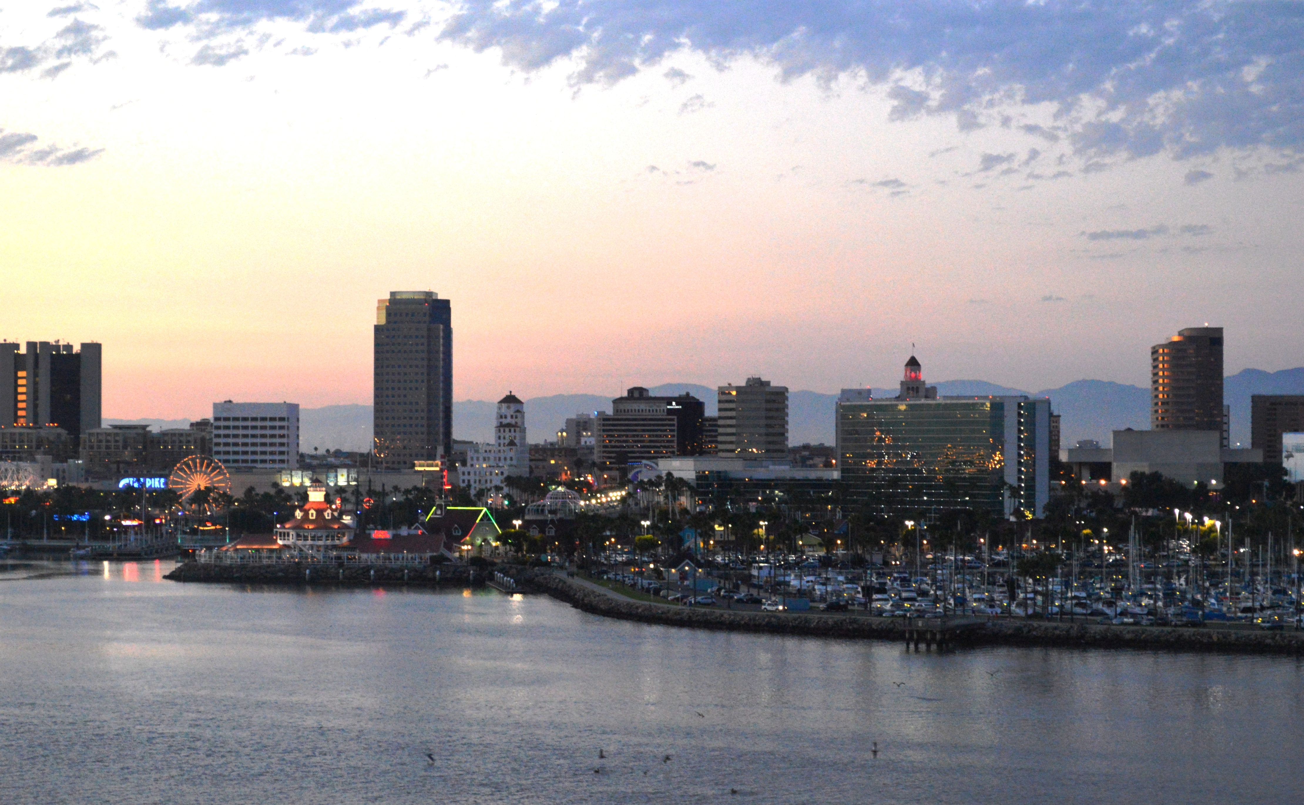 Downtown, Long Beach from aboard the Queen Mary